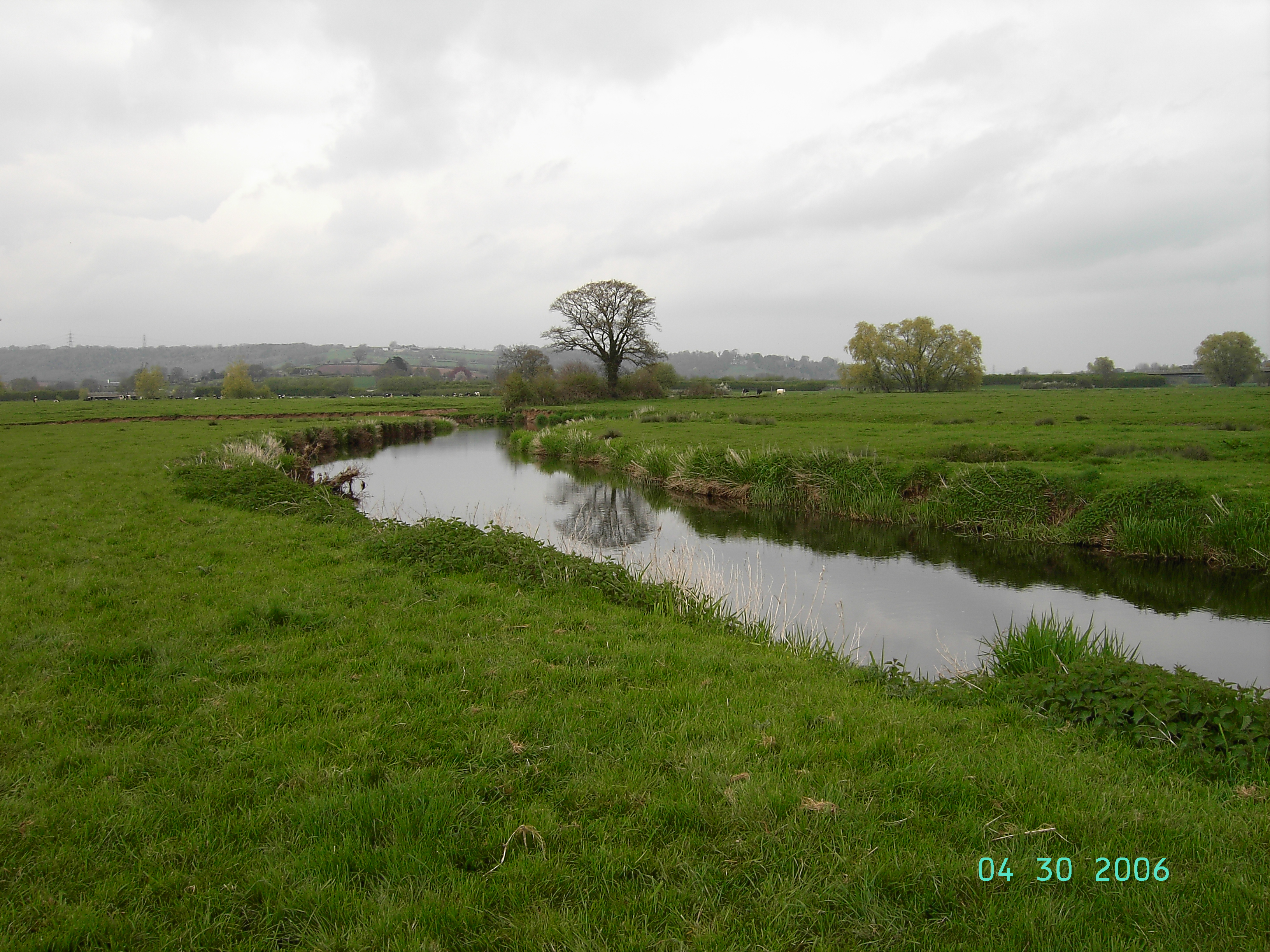 The River Axe, taken just outside of Axminster, Devon